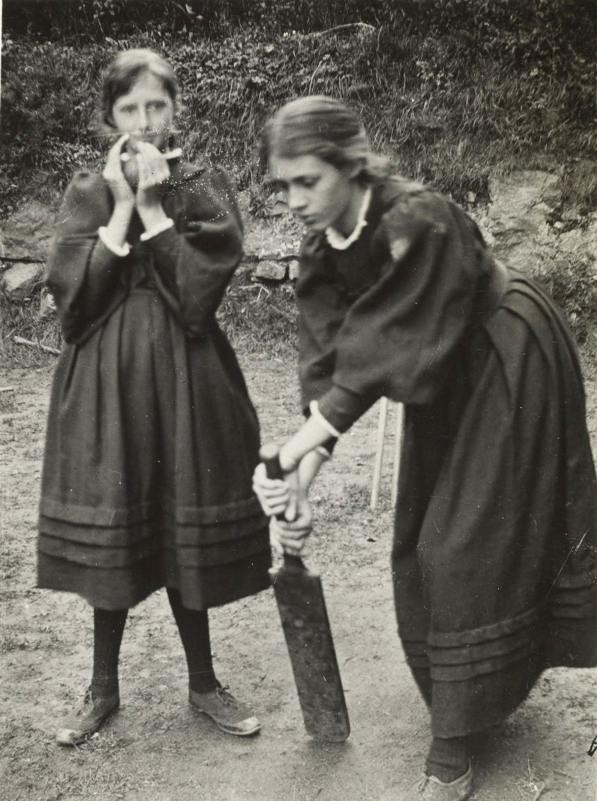 Virginia Woolf and Vanessa Bell playing cricket at Talland House